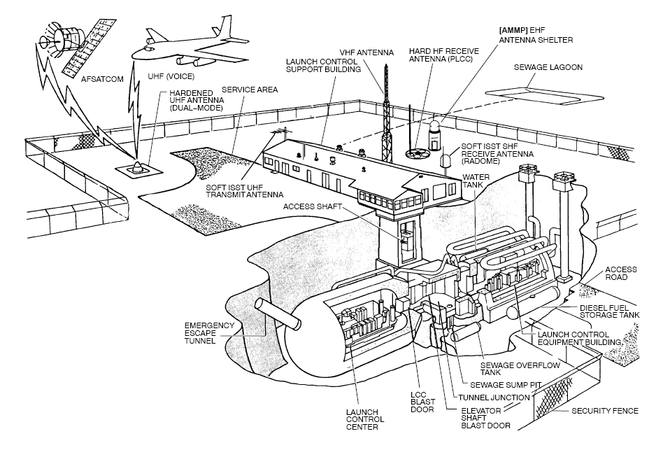 shows what a Missile Alert Facility looks like